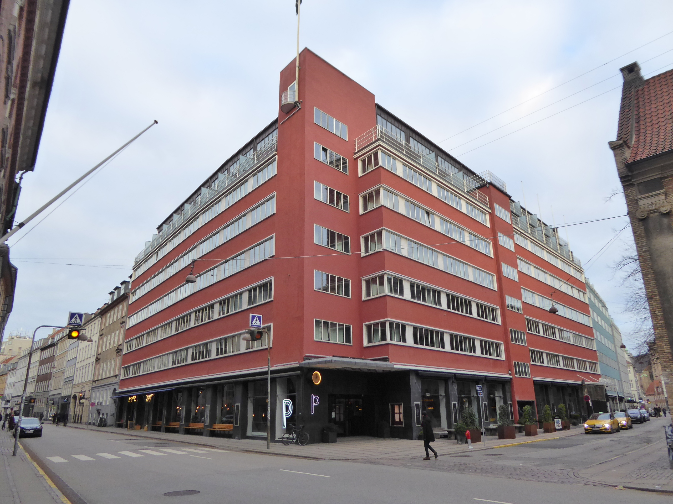 Hotel Skt. Petri at the corner of Nørregade and Krystalgade in Indre By in Copenhagen. It was build in 1928-1933 as the department store Daells Varehus. The department store closed in 1999 and in 2003 the hotel opened instead.